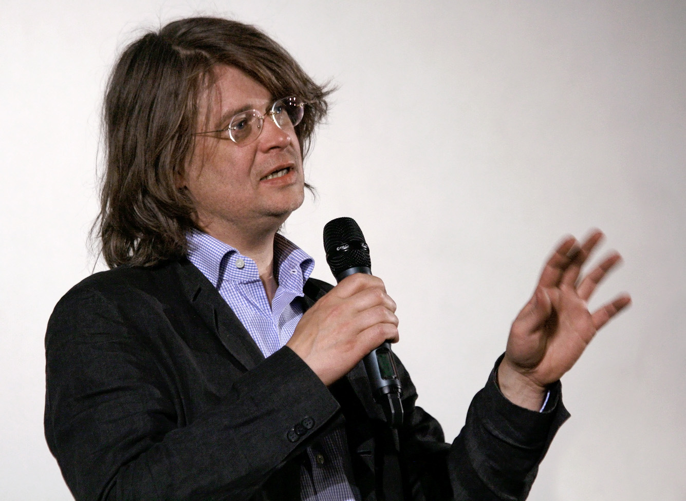 Edgar Honetschläger presenting his movie 'Aun' (Gartenbaukino, Vienna).